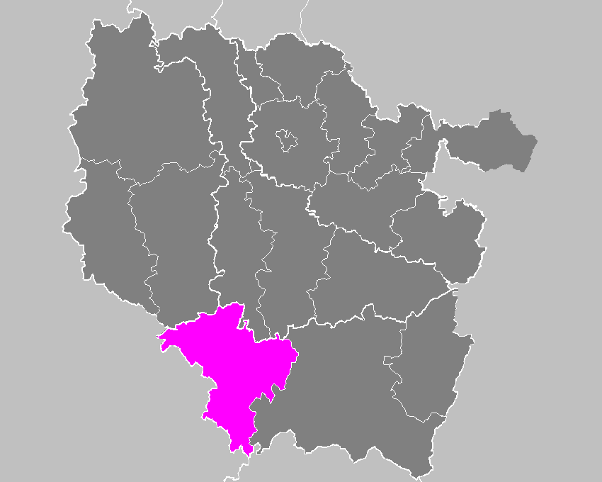 Maps of arrondissements and cantons of France: Arrondissement de Neufchâteau.PNG